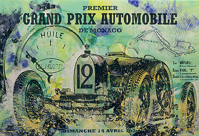 Artwork Abstract Pop of Bernd Luz in Media-mix on canvas